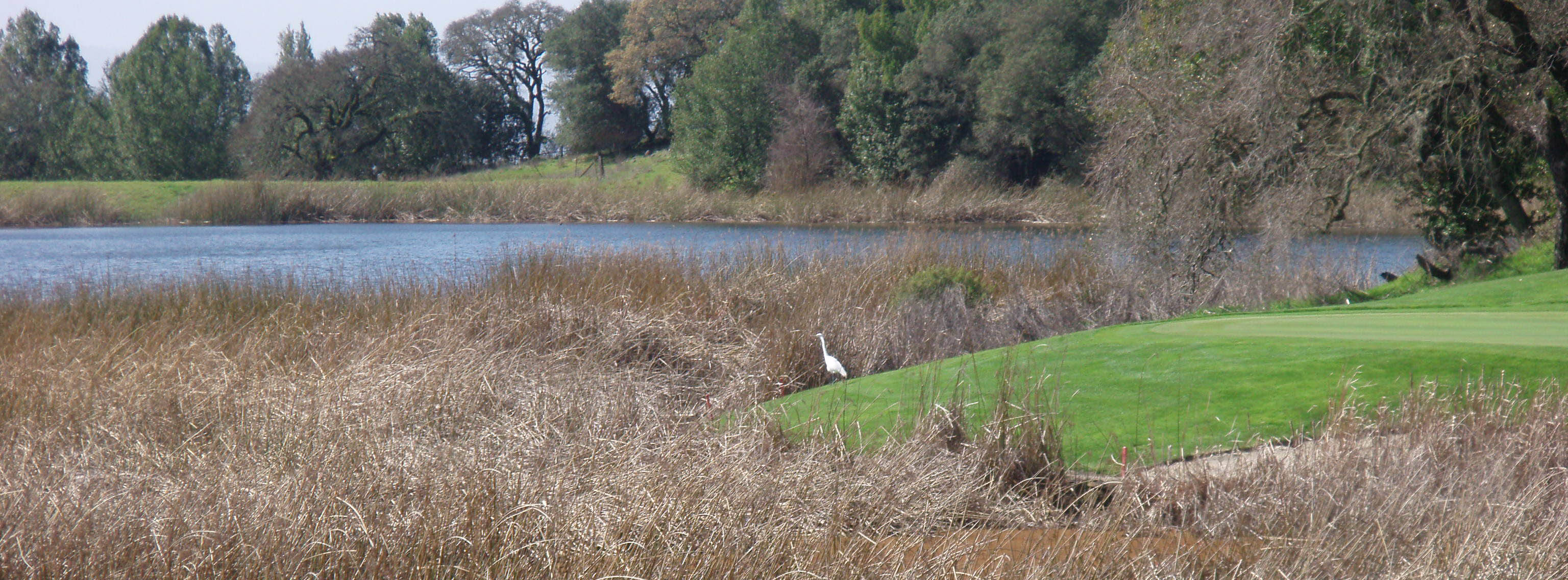 photographer: self